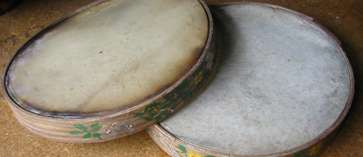 Tamburello bat